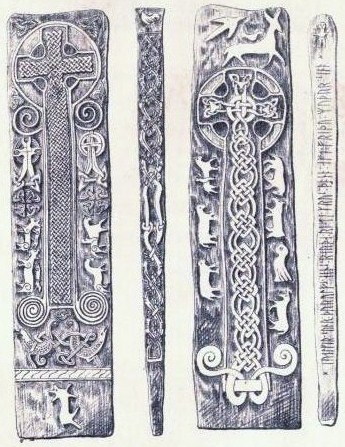 image